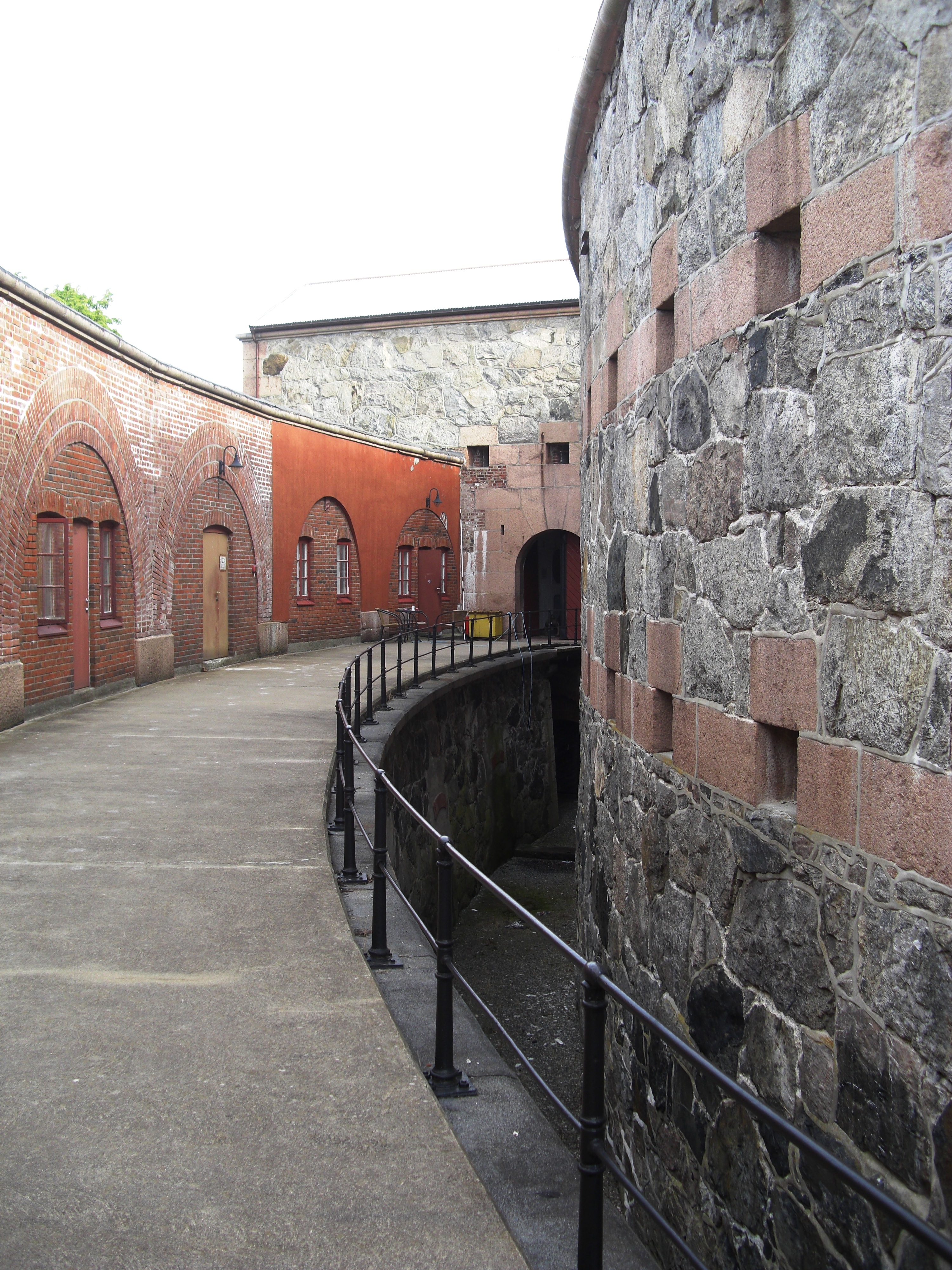 The rotunde at Oscarsborg